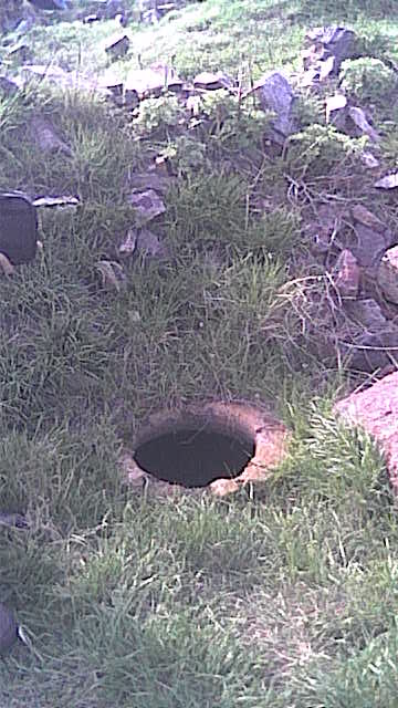 Grain Storage preserved in Dinogetia Stronghold.